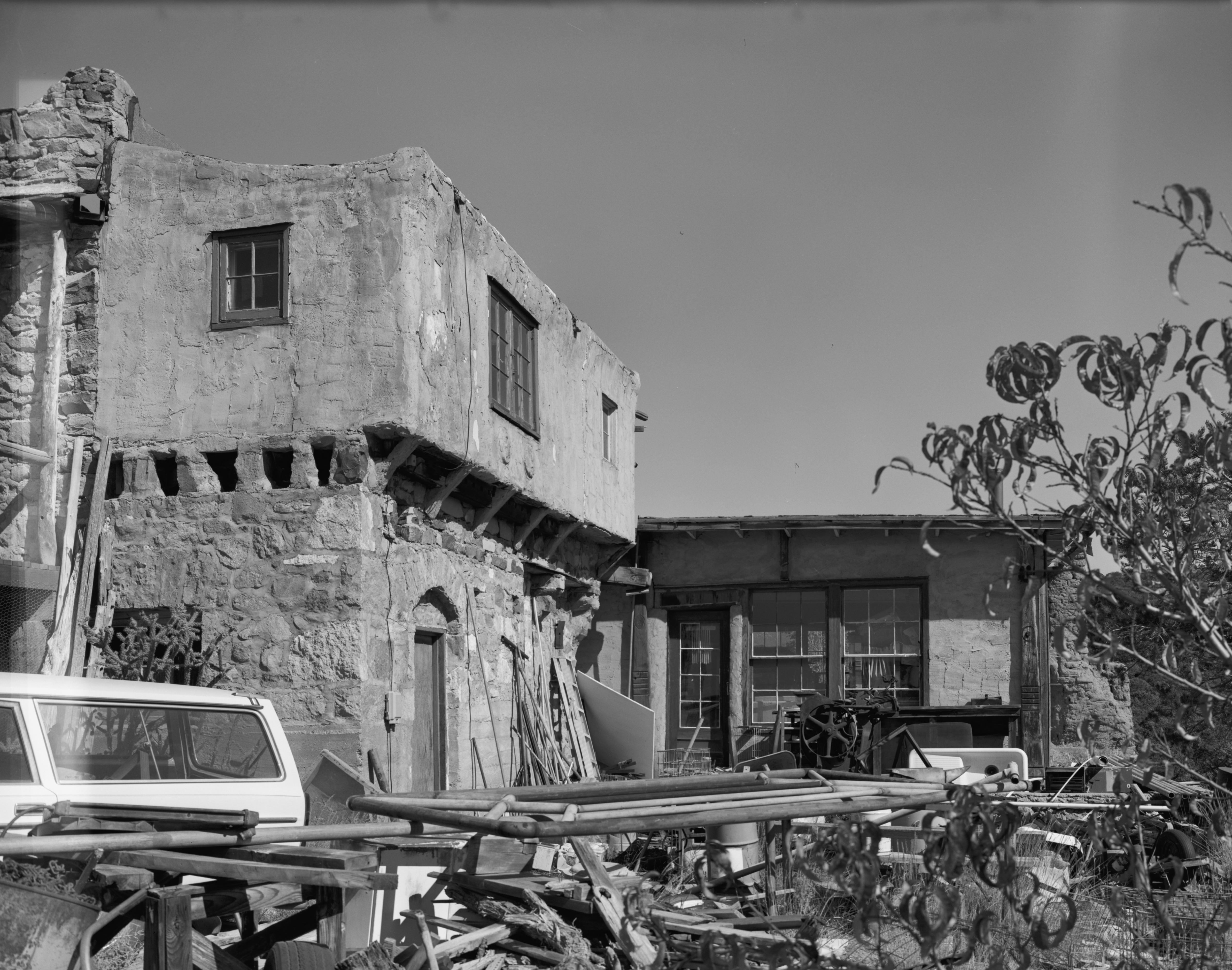 A house at Seton Village, the home of Ernest Thompson Seton, located south of Santa Fe in Santa Fe County, New Mexico, United States. Built in 1930, the Seton Village complex has been declared a National Historic Landmark District.